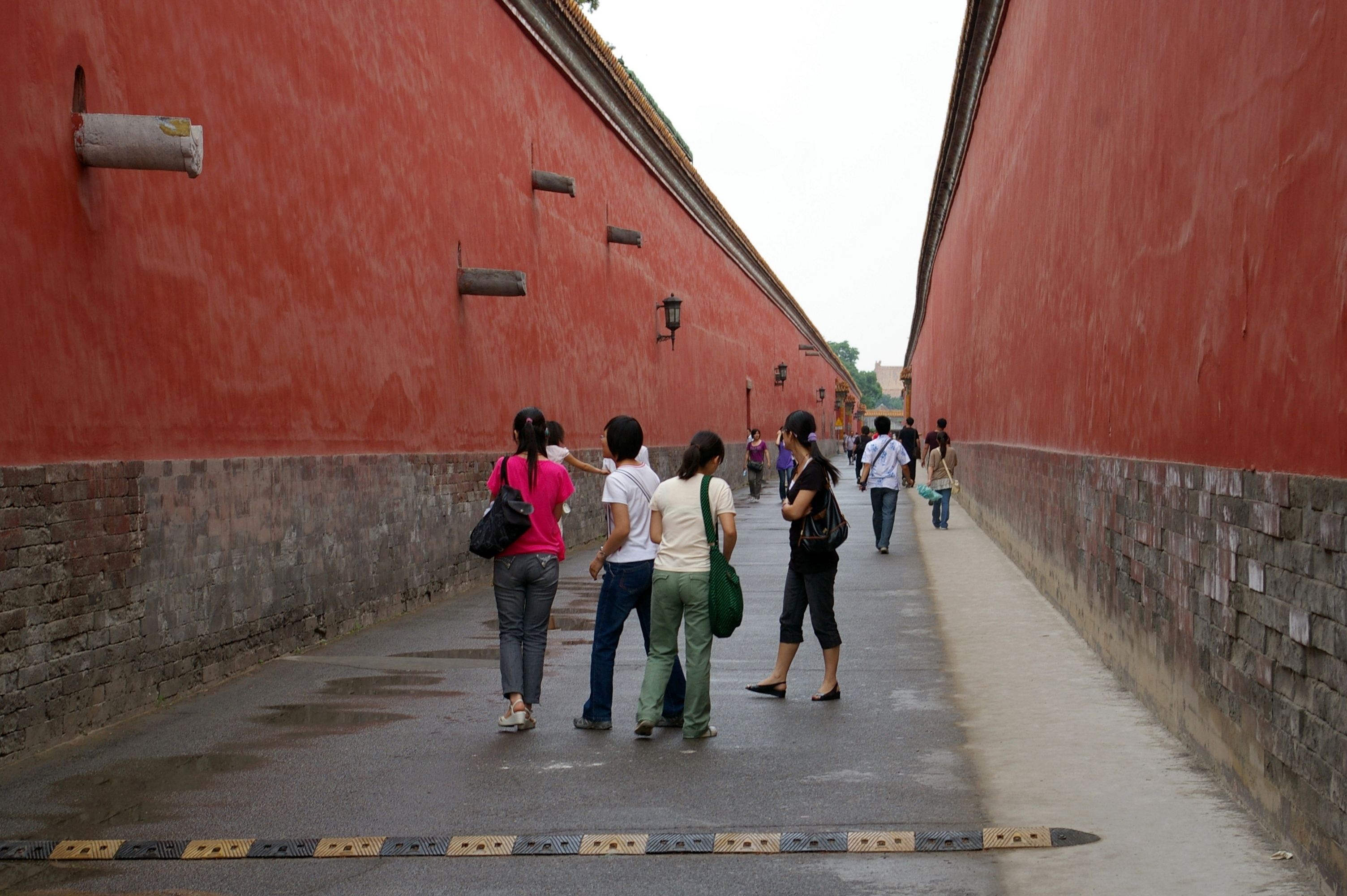 Forbidden City in Beijing